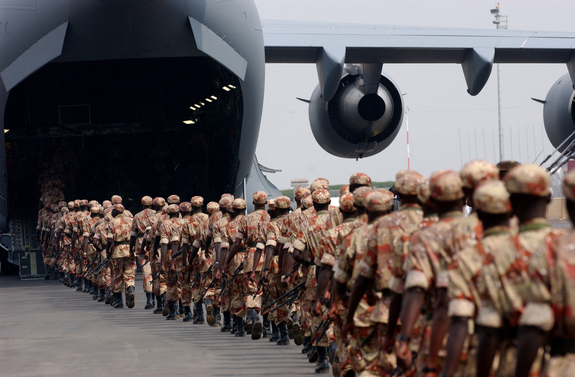 Rwandan soldiers line up to board a U.S. Air Force C-17 Globemaster III at the Kigali International Airport, Rwanda, for transportation to the Darfur region of Sudan on July 17, 2005. The U.S. airlift is part of the larger multinational effort to improve security and create conditions in which humanitarian assistance can be more effectively provided to the people of Darfur. DoD photo by Staff Sgt. Bradley C. Church, U.S. Air Force. (Released)